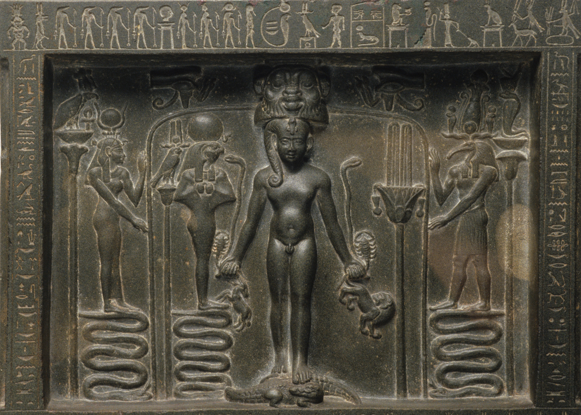 Cippus, Metternich